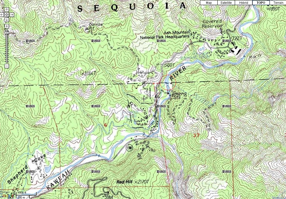 Topo map of the Kaweah River — as it exits Sequoia National Park, California. Just above the 1,360 foot contour. This is the lowest elevation in the park, circled in red.